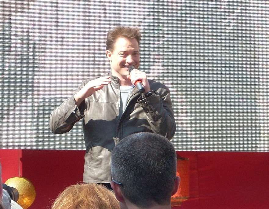 Brendan Fraser greeting the audience at the Mummy Mania of Universal Studios, 27 July, 2008.